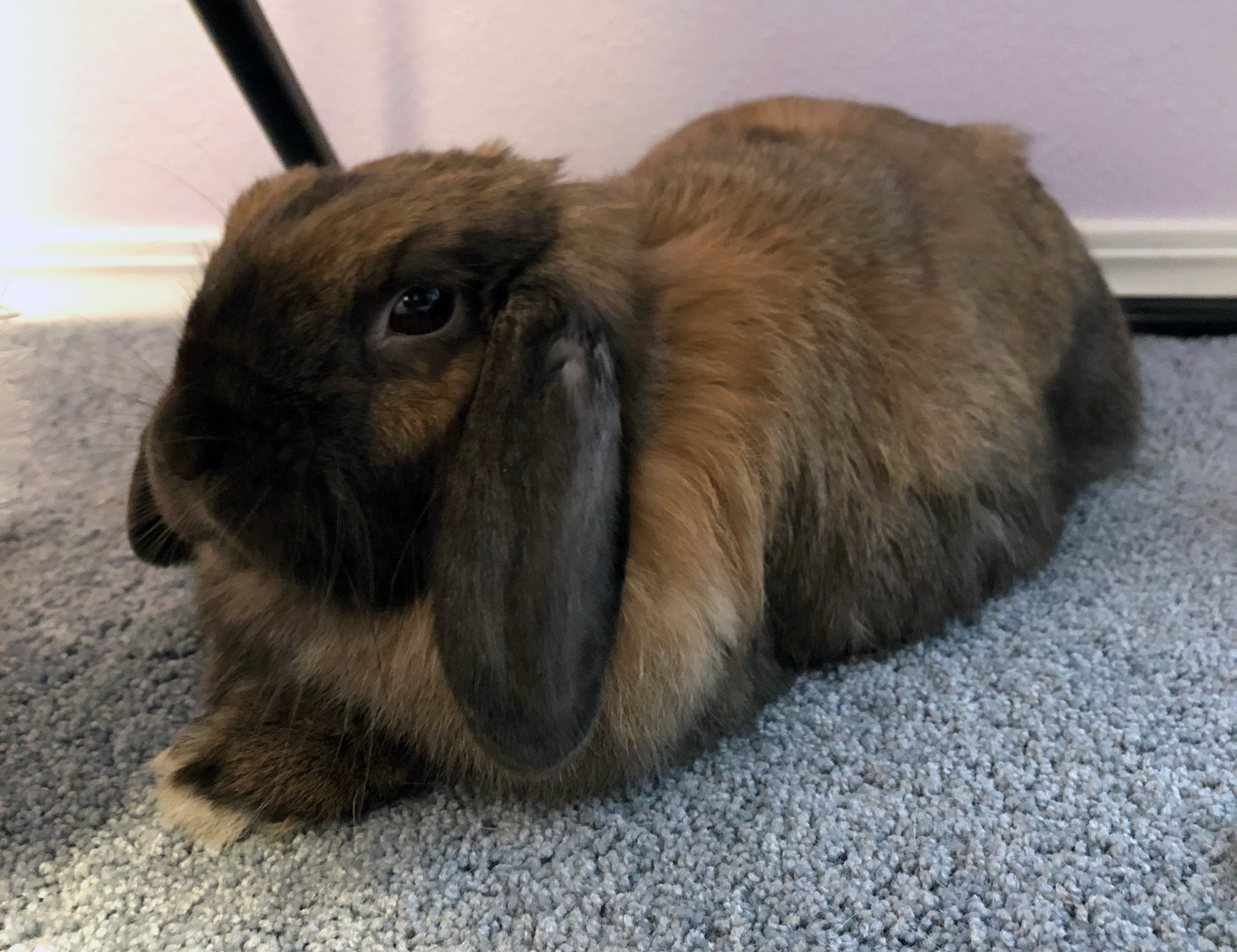 A picture of a Holland Lop resting upon the ground with her paws underneath her chest extended forward.